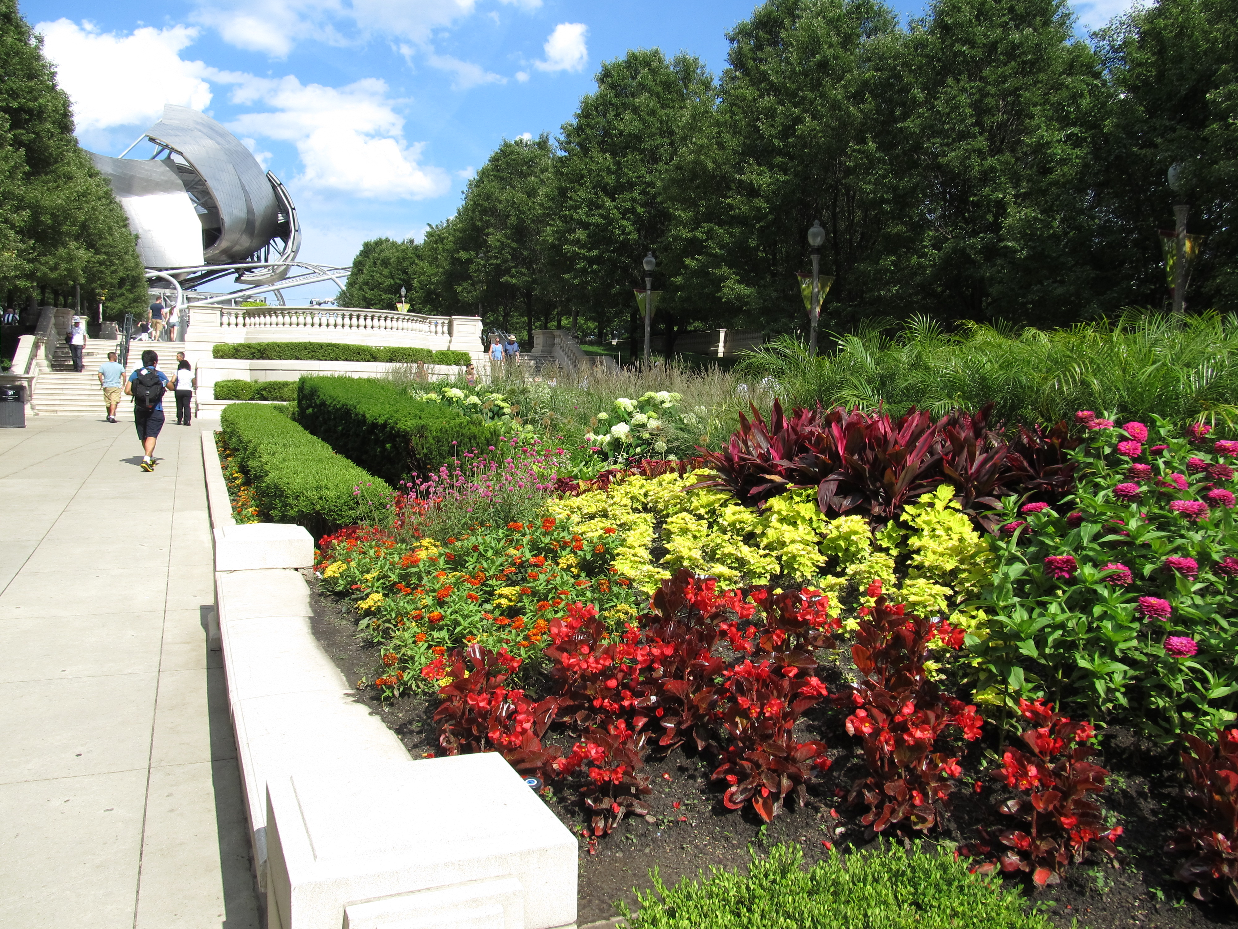 Millennium Park is a public park located in the Loop community area of Chicago in Illinois, USA and originally intended to celebrate the millennium. It is a prominent civic center near the city's Lake Michigan shoreline that covers a 24.5-acre (99,000 m2) section of northwestern Grant Park. The area was previously occupied by parkland, Illinois Central rail yards, and parking lots. The park, which is bounded by Michigan Avenue, Randolph Street, Columbus Drive and East Monroe Drive, features a variety of public art. As of 2009, Millennium Park trailed only Navy Pier as a Chicago tourist attraction. Planning of the park began in October 1997. Construction began in October 1998, and Millennium Park was opened in a ceremony on July 16, 2004, four years behind schedule. The three-day opening celebrations were attended by some 300,000 people and included an inaugural concert by the Grant Park Orchestra and Chorus. The park has received awards for its accessibility and green design. Millennium Park has free admission, and features the Jay Pritzker Pavilion, Cloud Gate, the Crown Fountain, the Lurie Garden, and various other attractions. The park is connected by the BP Pedestrian Bridge and the Nichols Bridgeway to other parts of Grant Park. Because the park sits atop a parking garage and the commuter rail Millennium Station, it is considered the world's largest rooftop garden.